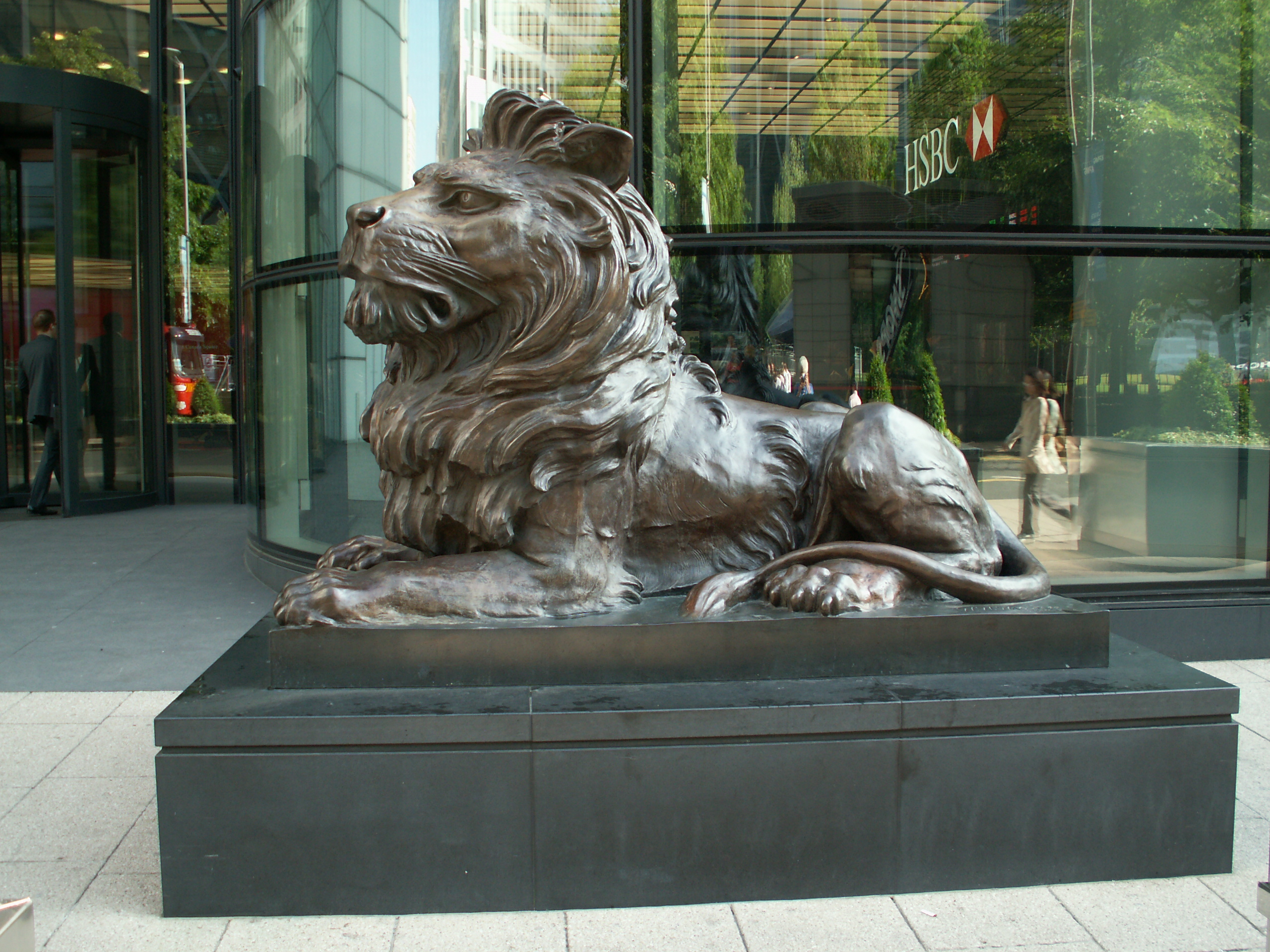 Pic taken from Canada Square.